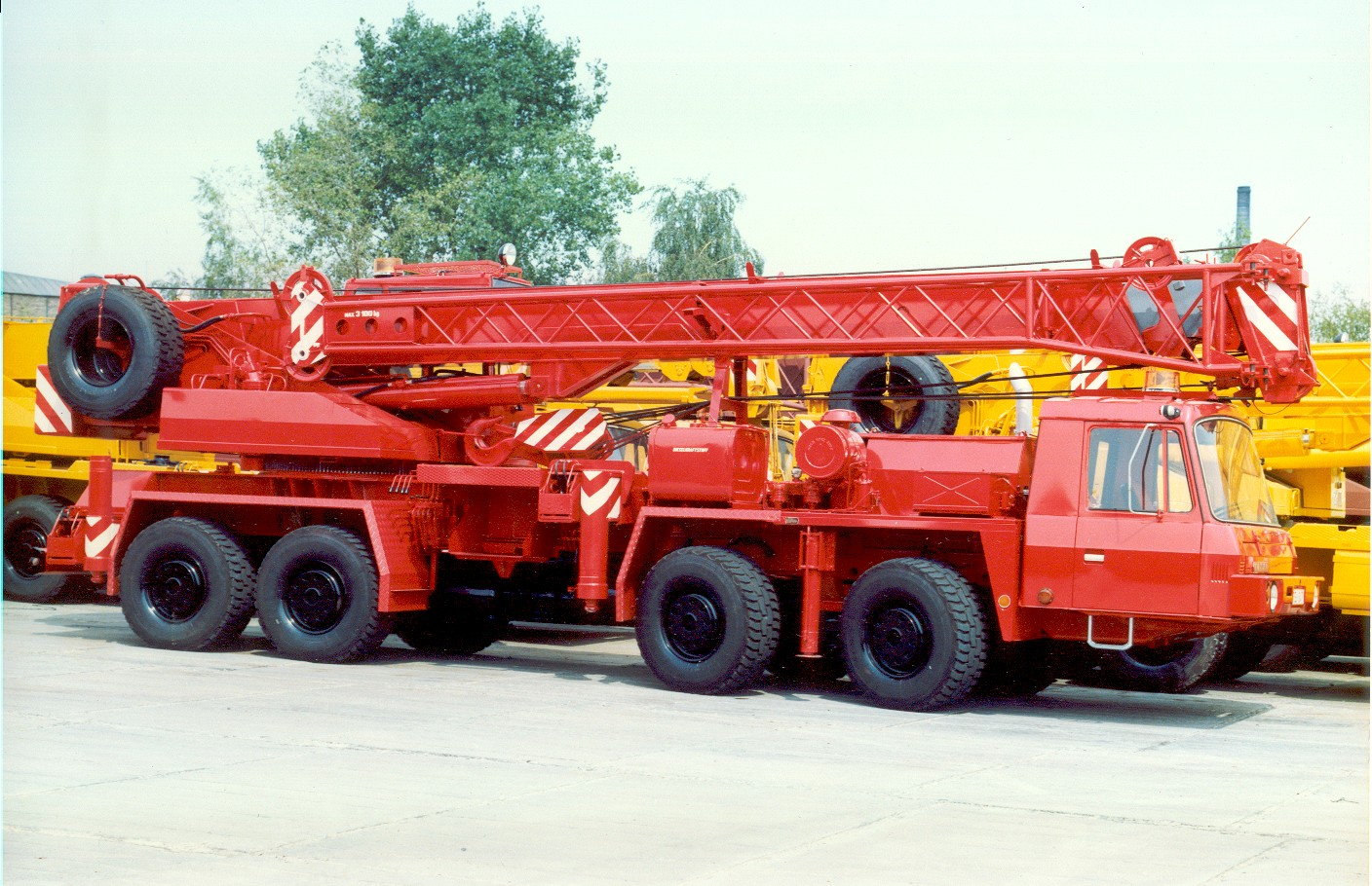 Mobile crane AD30-8x8 TATRA